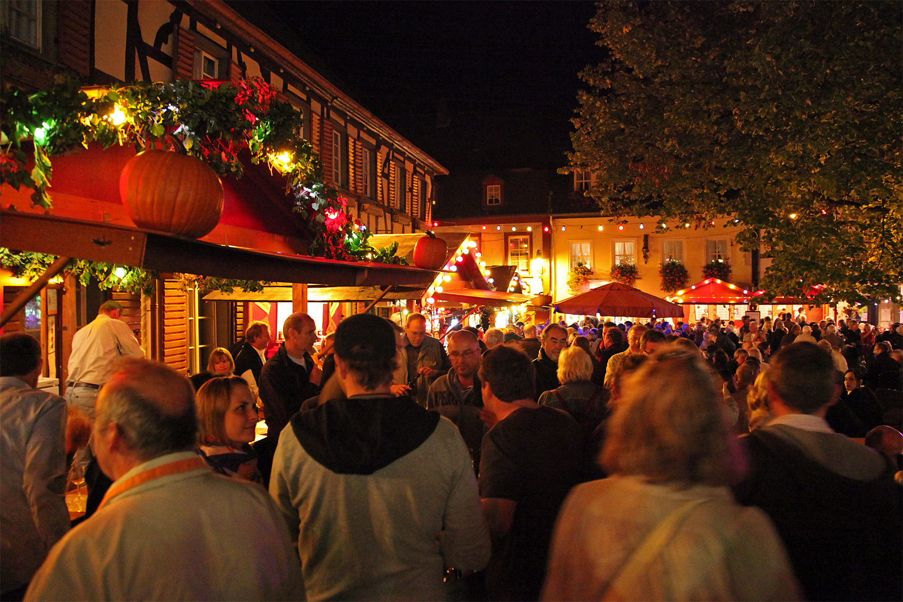 Wein- und Heimatfest in Unkel, Germany